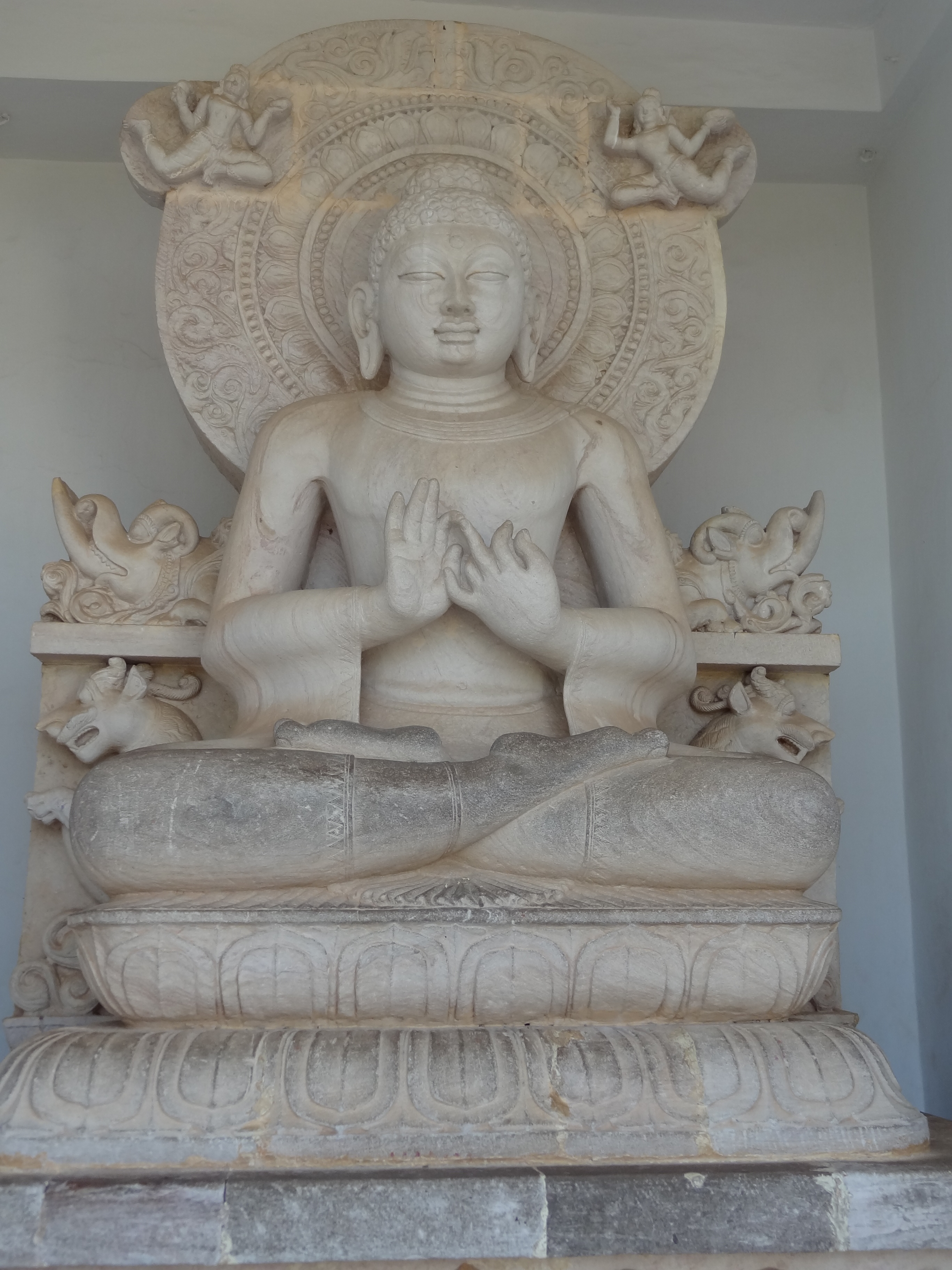 Statue of Buddha in Dhauli Shanti Stupa, Bhubaneswar